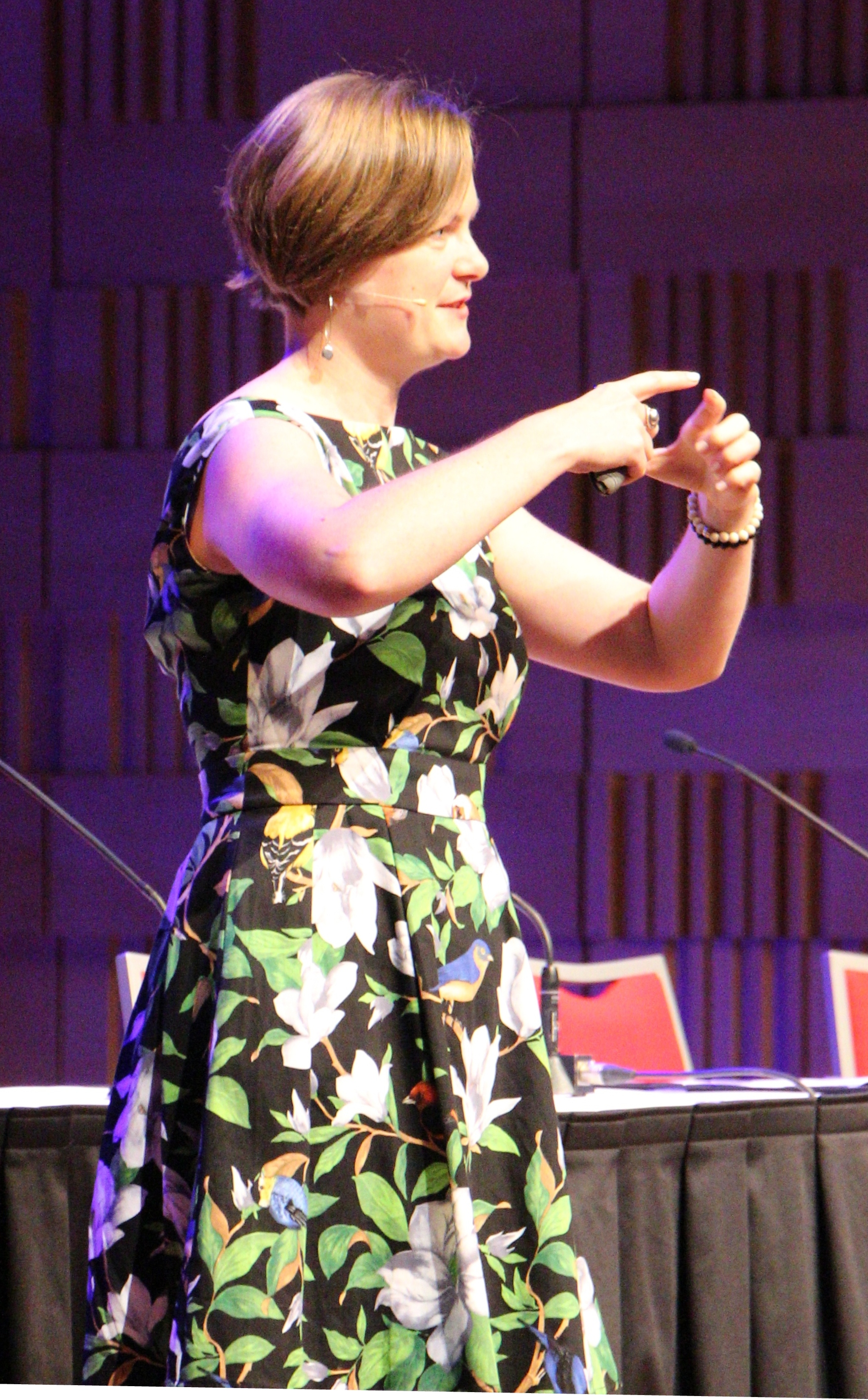 Australian Skeptics Convention held in Sydney, November 2014. Dr Amanda Bauer speaking on "Crash of the titans: When galaxies collide".